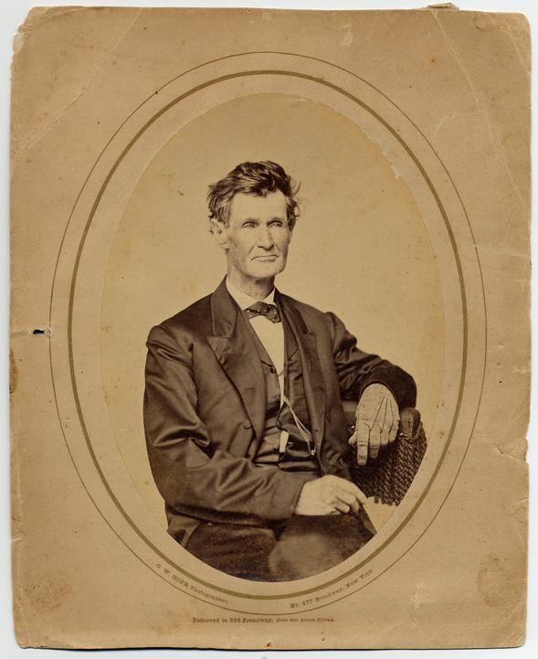 A photograph of Dr. Matthew Fleming Stephenson. The photograph was taken by George W. Hope in New York where Hope had a studio from 1857 to 1860